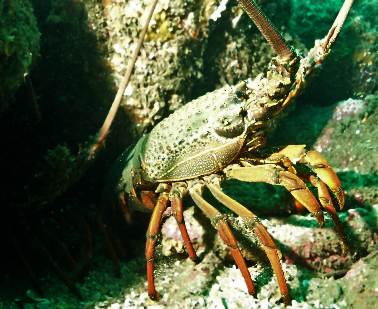 Jasus verreauxi The eastern rock lobster is the largest species of lobster in the world, reaching up to 7 kg when fully grown. Few if any individuals reach this size, however, as the species has been heavily fished for many years. The commercial catch has fallen from around 400 t/yr in the 1980s to around 150 t/yr over the last decade.